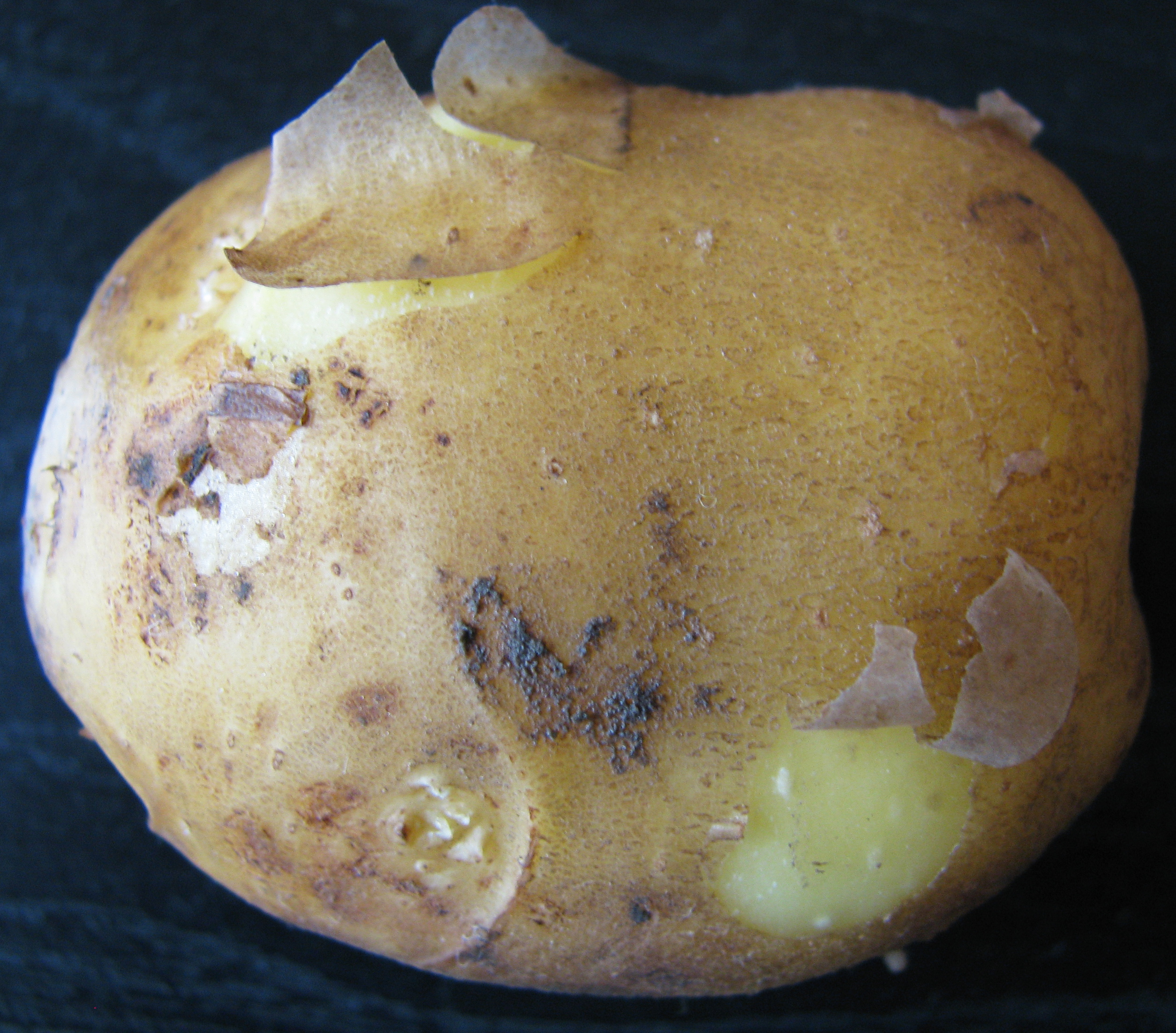 The Opperdoezer Ronde (short: Opperdoezer), a Dutch potato from Opperdoes, Noord-Holland.